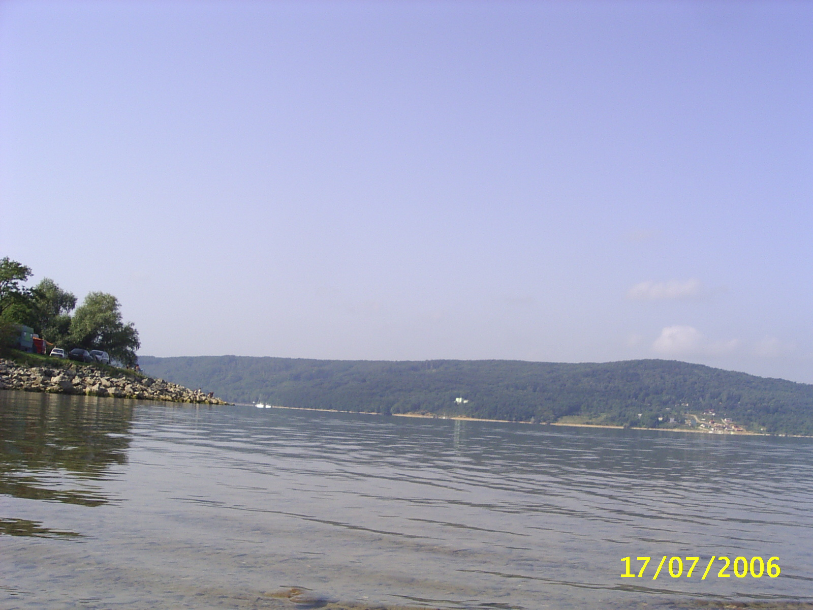 Lake domasa velka in Slovak Republic